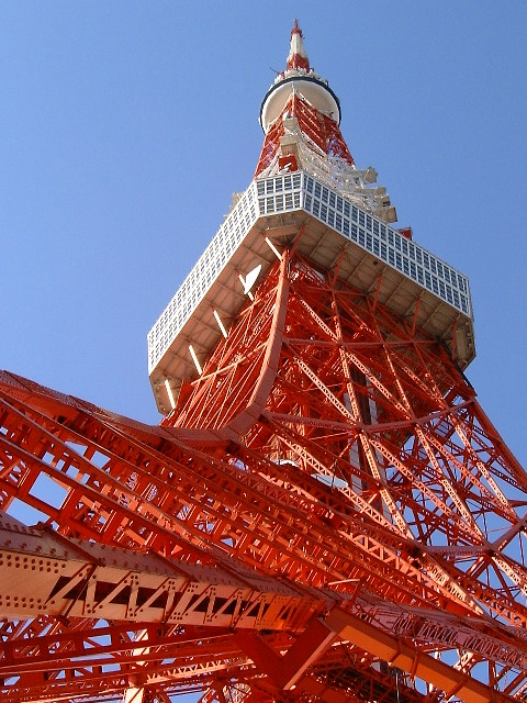 Tokyo Tower(Non-Digital Terrestrial Television Broadcasting Anntena)